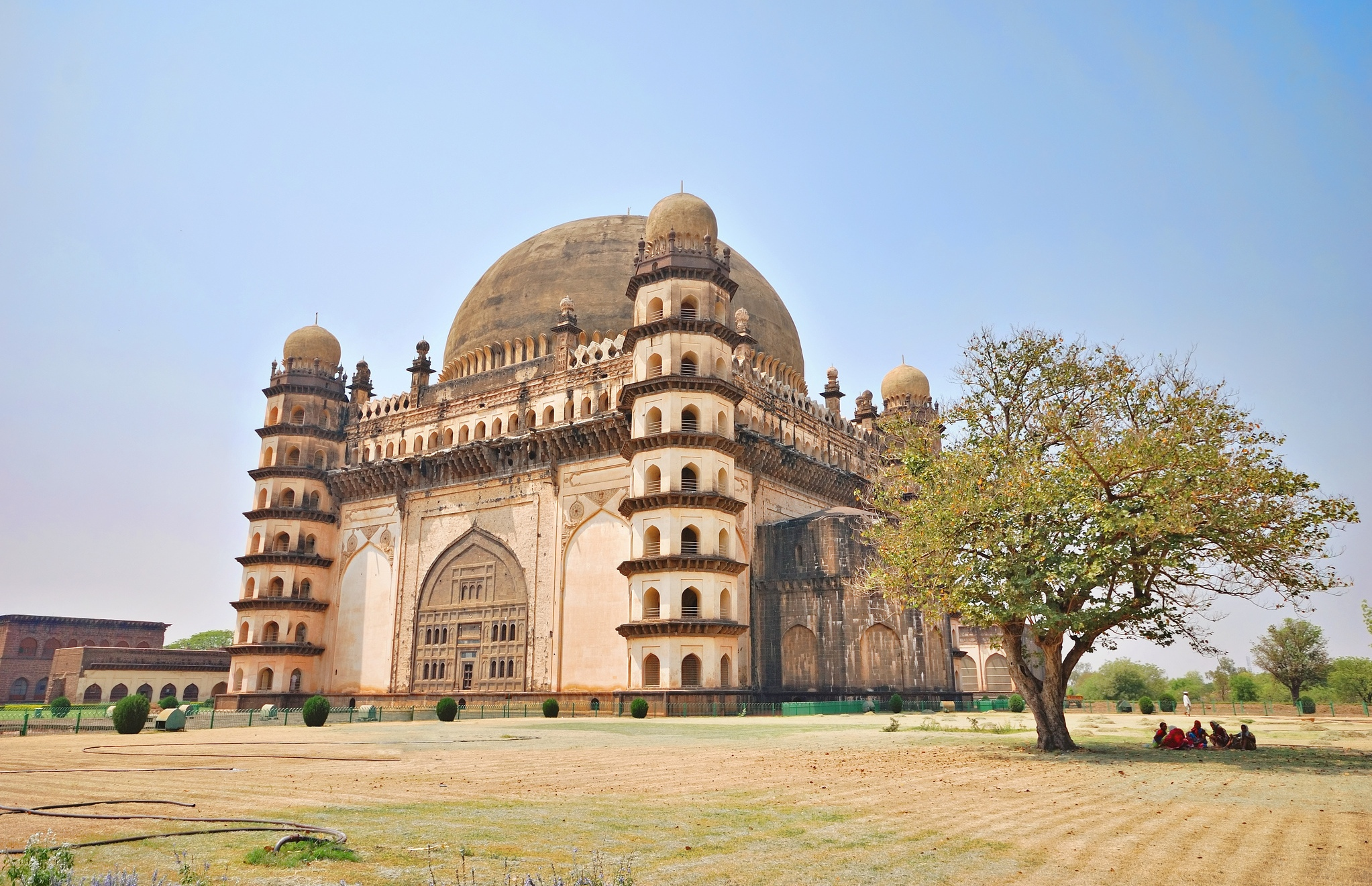 Gol Gumbaz is the mausoleum of Muhammad Adil Shah (1627 -56), the seventh ruler of the Adil Shahi dynasty. A fine specimen of Adil Shahi architecture, this mammoth tomb is a dominant landmark of Bijapur. The construction of the Gol Gumbaz was completed in 1659, after 20 years of meticulous craftsmanship. The chief attraction of the mausoleum is its central dome, which is second in size only to the dome of St Peter's Basilica in Rome and stands unsupported by any pillars. Another astonishing facet of the Golgumbaz is its whispering gallery, which is an acoustic marvel. The gallery has been designed in such a way that the tick of a watch or the rustle of paper can be heard across a distance of 37m and the faintest sound is echoed eleven times over. The tombs of Sultan Adil Shah, his two wives, his mistress Ramba, his daughter and grandson are located under the central dome. The octagonal turrets which project at an angle and the huge bracketed cornic below the parapet, are important features of this monument. From the gallery around the dome, which can be reached by climbing up the turret passages, one can have a fabulous view of the town.